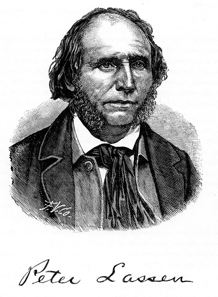 Portrait of Peter Lassen, 1800-1859